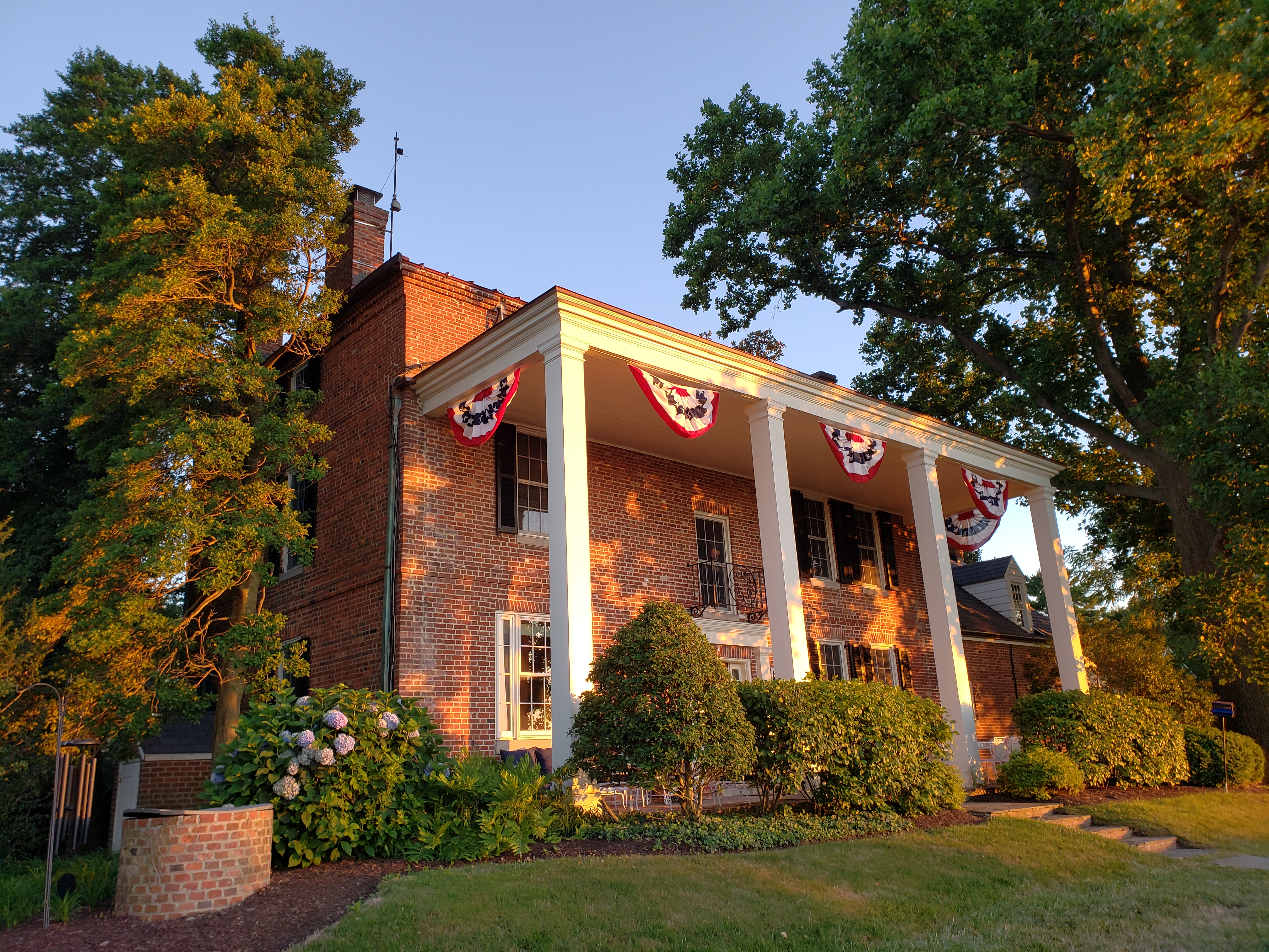 This is a current photograph of the Stoopley Gibson manor as viewed from the northern river side featuring the rear veranda which was originally screened. The photograph also shows an original well in the lower-left corner.